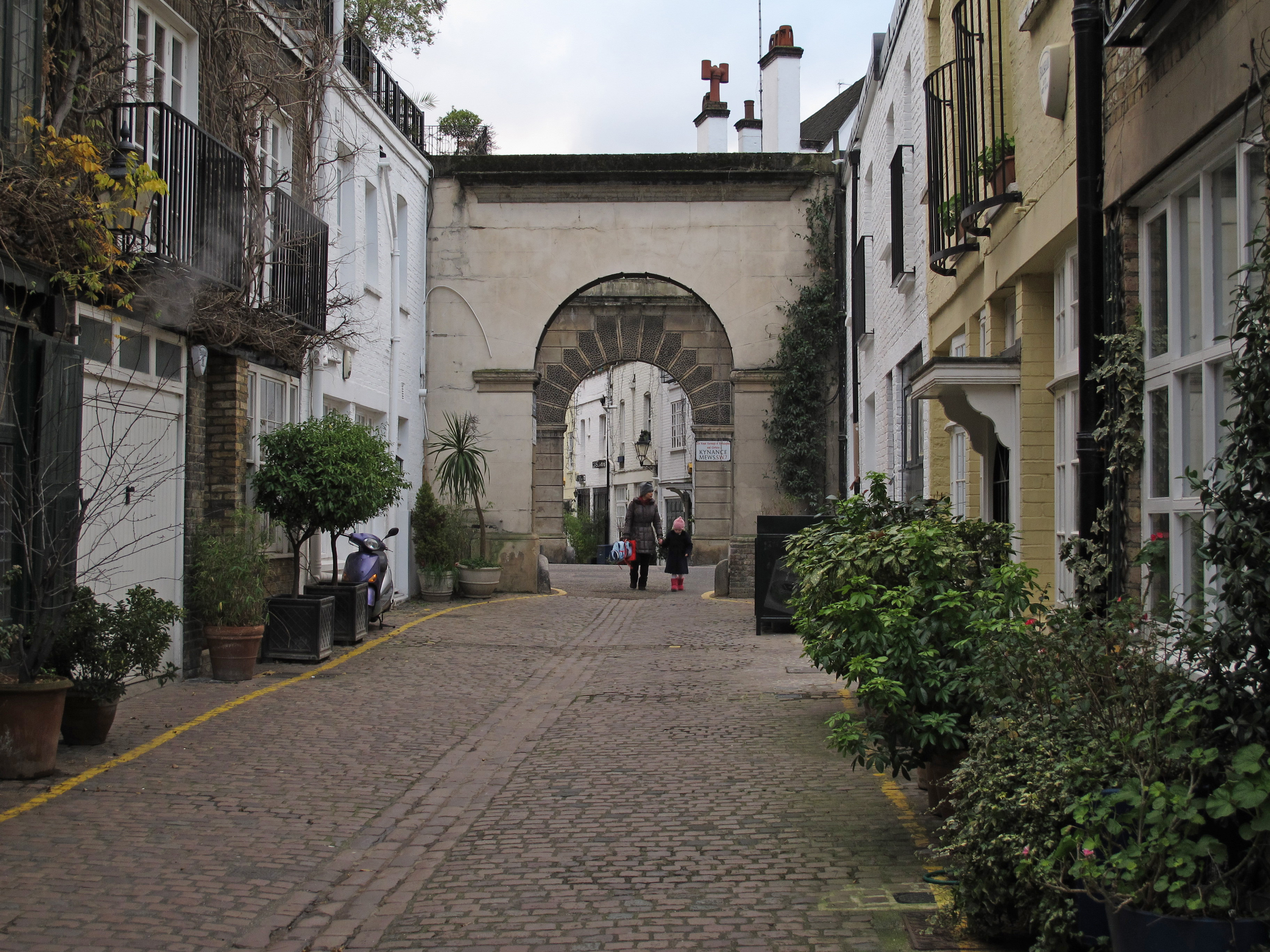 Looking east to the Arches. Looking east from the western part of Kynance Mews at the 2 listed arches.